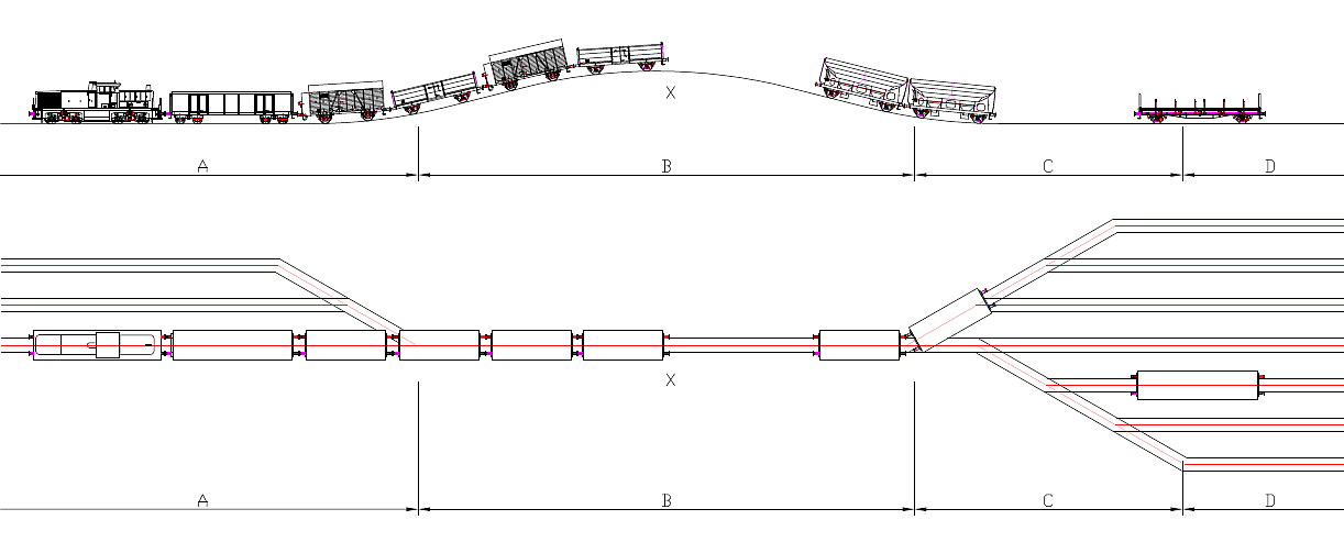 Scetch hump yard A-lead track B-hump yard with X=breaking point C-switch area D-destination tracks